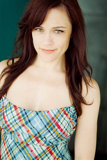 Christine Elise Mccarthy in June 2009